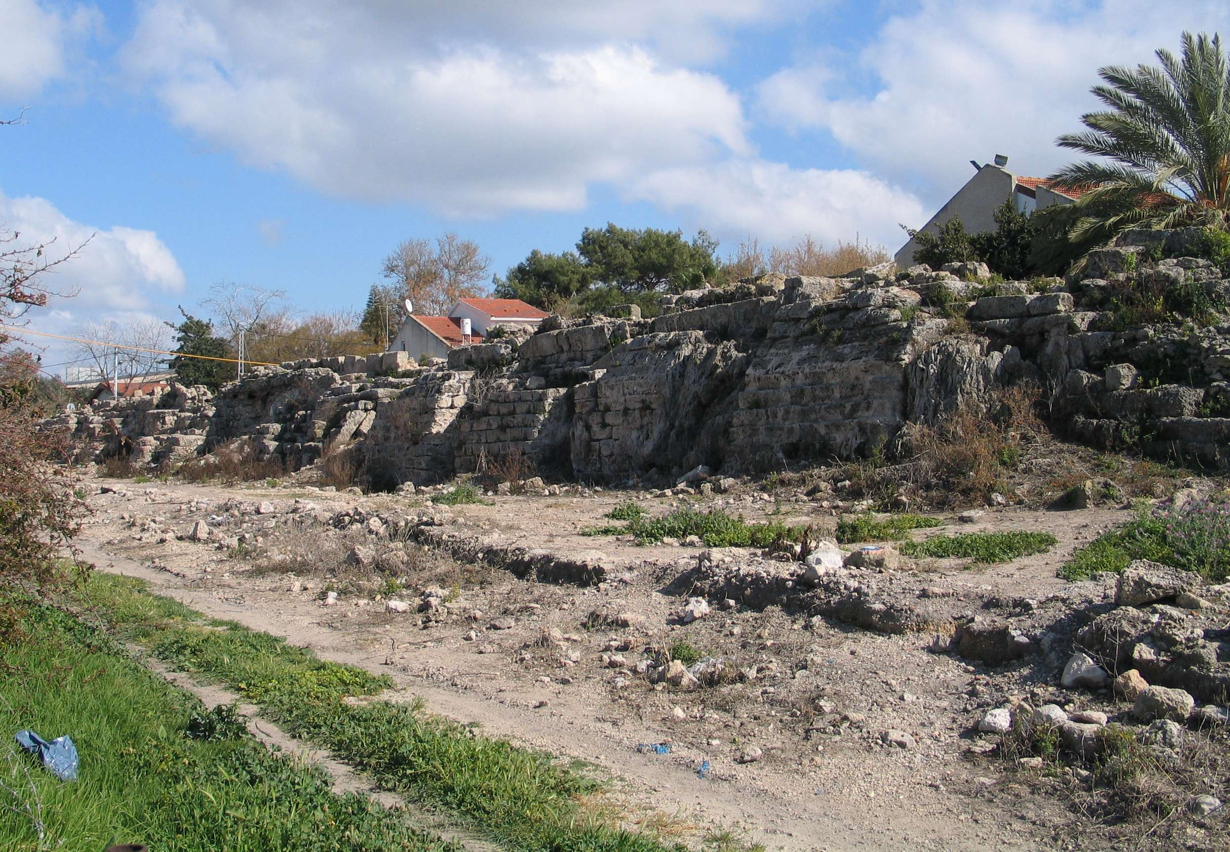 Moshav Beit Hanania, Israel. Aqueduct leading to Caesarea.